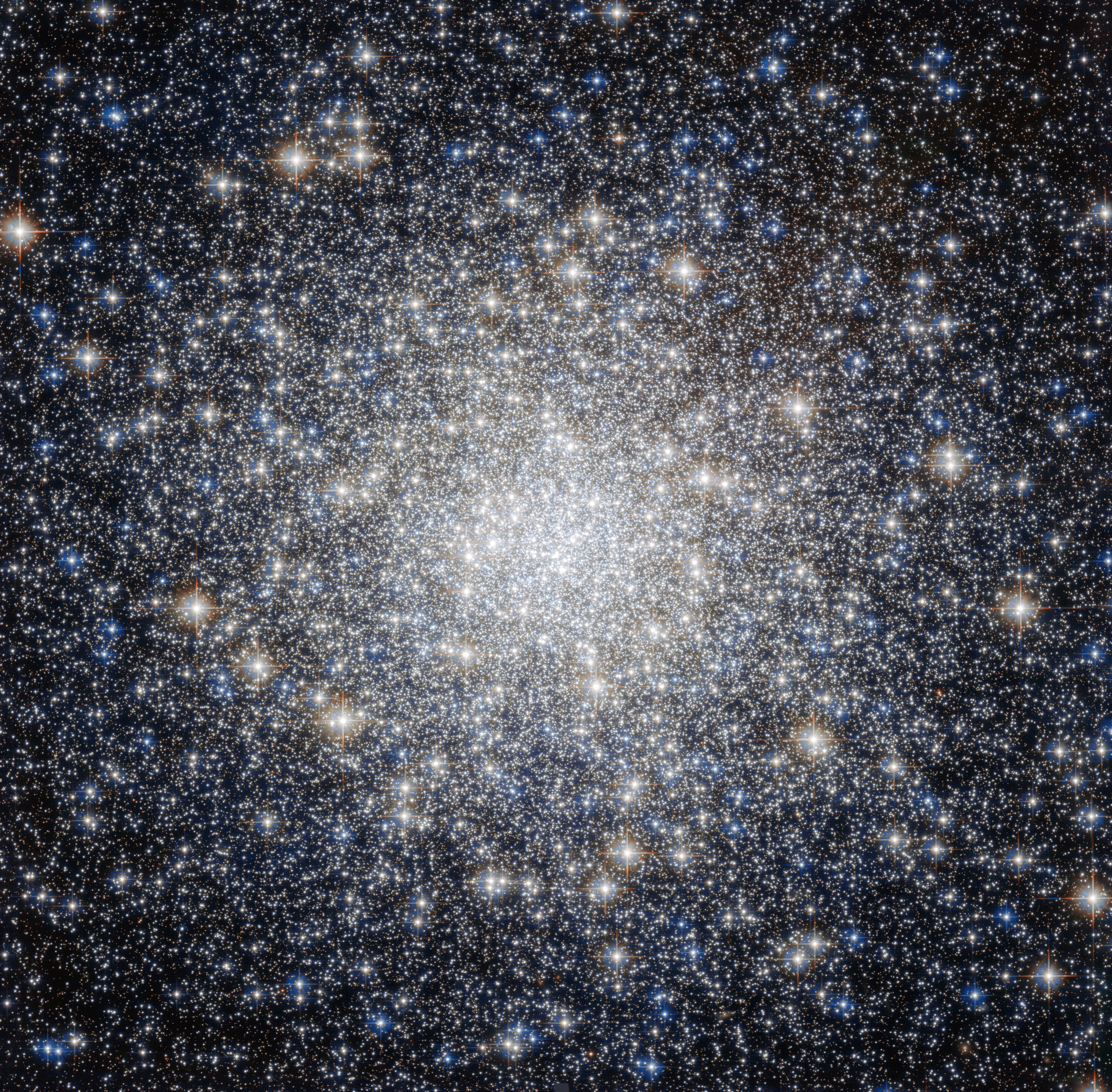 This striking new NASA/ESA Hubble Space Telescope image shows a glittering bauble named Messier 92. Located in the northern constellation of Hercules, this globular cluster— a ball of stars that orbits a galactic core like a satellite — was first discovered by astronomer Johann Elert Bode in 1777. Messier 92 is one of the brightest globular clusters in the Milky Way, and is visible to the naked eye under good observing conditions. It is very tightly packed with stars, containing some 330 000 stars in total. As is characteristic of globular clusters, the predominant elements within Messier 92 are hydrogen and helium, with only traces of others. It is actually what is known as an Oosterhoff type II (OoII) globular cluster, meaning that it belongs to a group ofmetal-poor clusters — to astronomers, metals are all elements heavier than hydrogen and helium. By exploring the composition of globulars like Messier 92, astronomers can figure out how old these clusters are. As well as being bright, Messier 92 is also old, being one of the oldest star clustersin the Milky Way, with an age almost the same as the age of the Universe. A version of this image was entered into the Hubble’s Hidden Treasures image processing competition by contestant Gilles Chapdelaine. Links Gilles Chapdelaine’s Hidden Treasures entry on Flickr